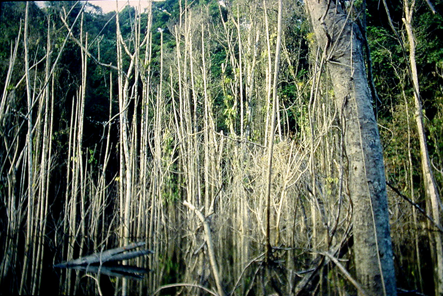 Photo made in the Sinnamary river basin on the Kursibo river (or Courcibo), in french Guiana, at the end of the rise of the waters induced by the dam EDF de Petit saut, December 1995. All the trees drowned by the dam had a root system and a metabolism not adapted to immersion ; they have lost all their leaves in a few months and have drowned, producing for some years the ghost forest or gray forest ; only a few epiphytic plants resistant to the sun have survived on the trees